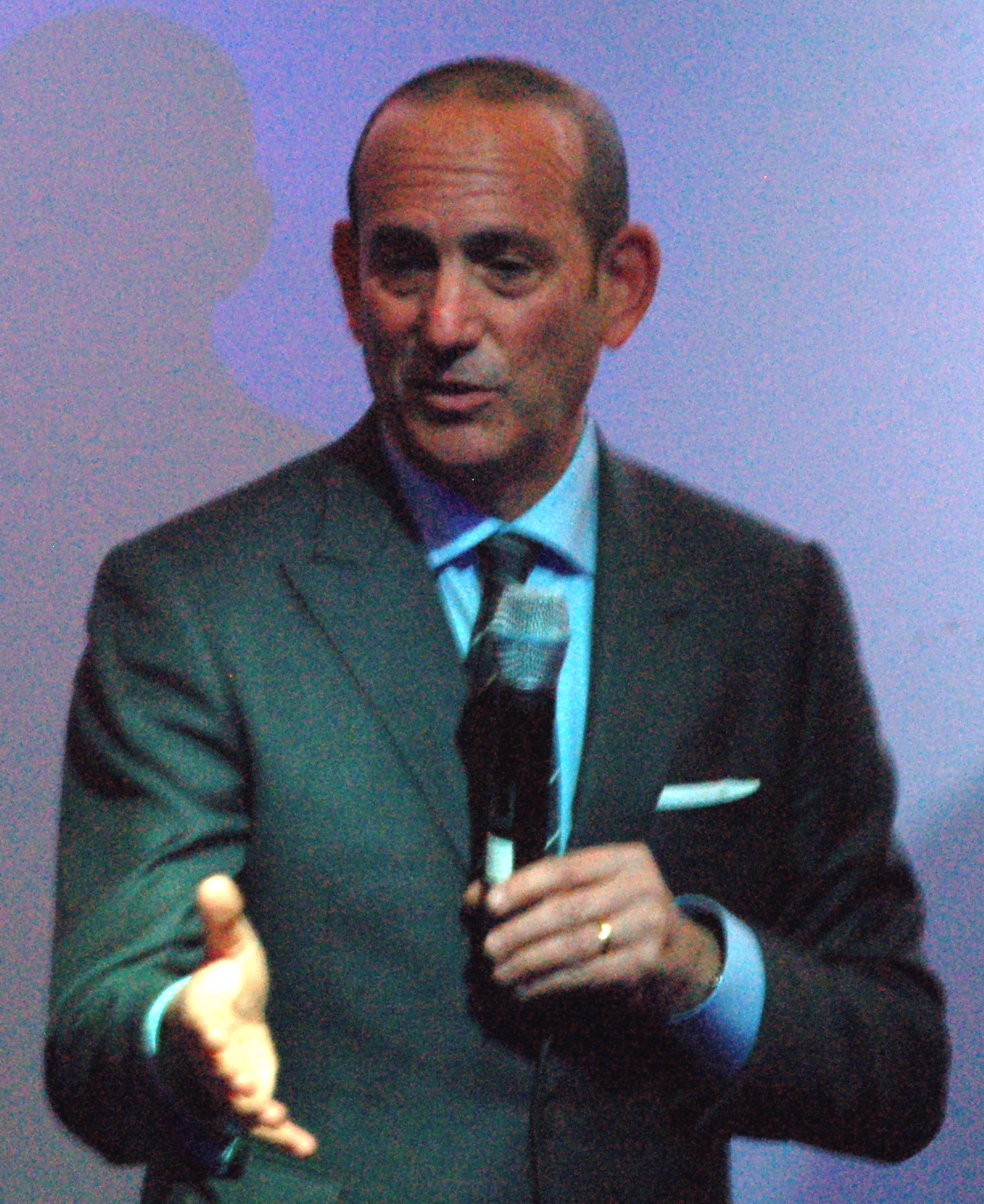 Don Garber Taken at the FC Cincinnati #MLS2CINCY Town Hall with Don Garber at the Woodward Theater in Over-the-Rhine on November 29, 2016.